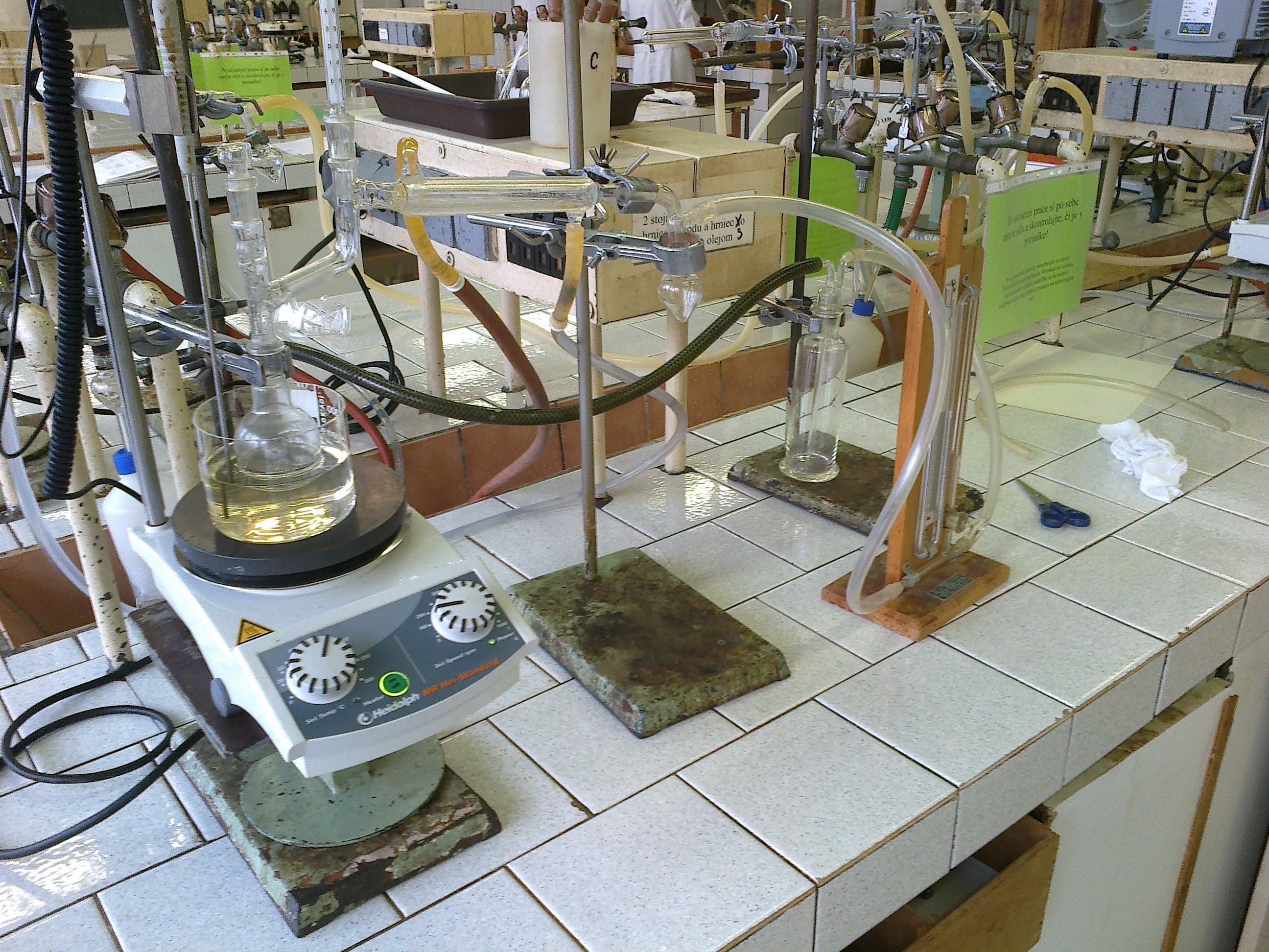 Vacuum distillation. Photo taken at Slovak University of Technology.